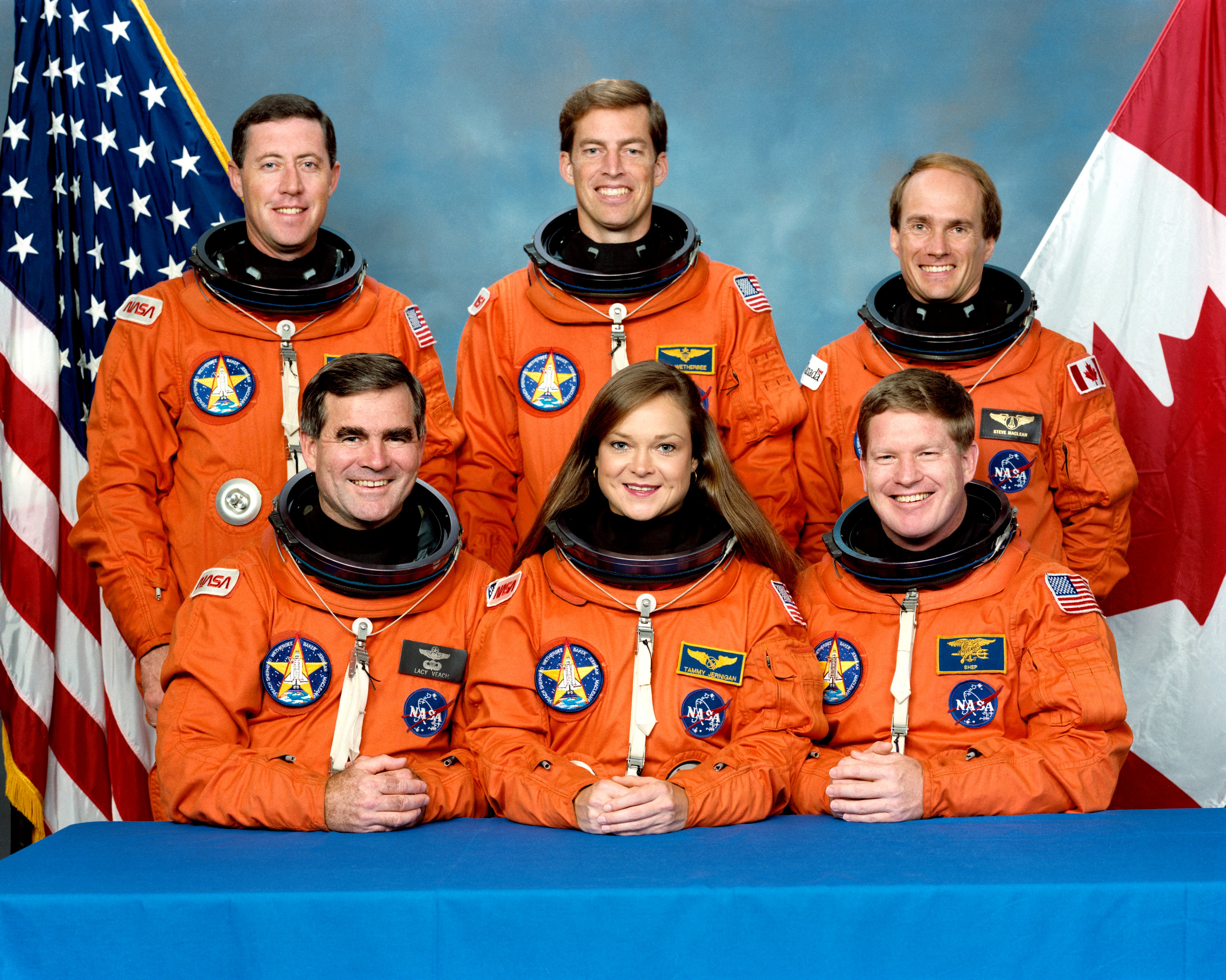 Five NASA astronauts and one Canadian payload specialist composed the STS-52 crew. Pictured on the back row, left to right, are Michael A. Baker, pilot; James B. Wetherbee, commander; and Steven G. Maclean, payload specialist. On the front row, left to right, are mission specialists Charles (Lacy) Veach, Tamara Jernigan, and William Shepherd. Launched aboard the Space Shuttle Columbia on October 22, 1992 at 1:09:39 p.m. (EDT), the crew's primary objectives were the deployment of the Laser Geodynamic Satellite (LAGEOS II) and operation of the U.S. Microgravity Payload-1 (USMP-1).